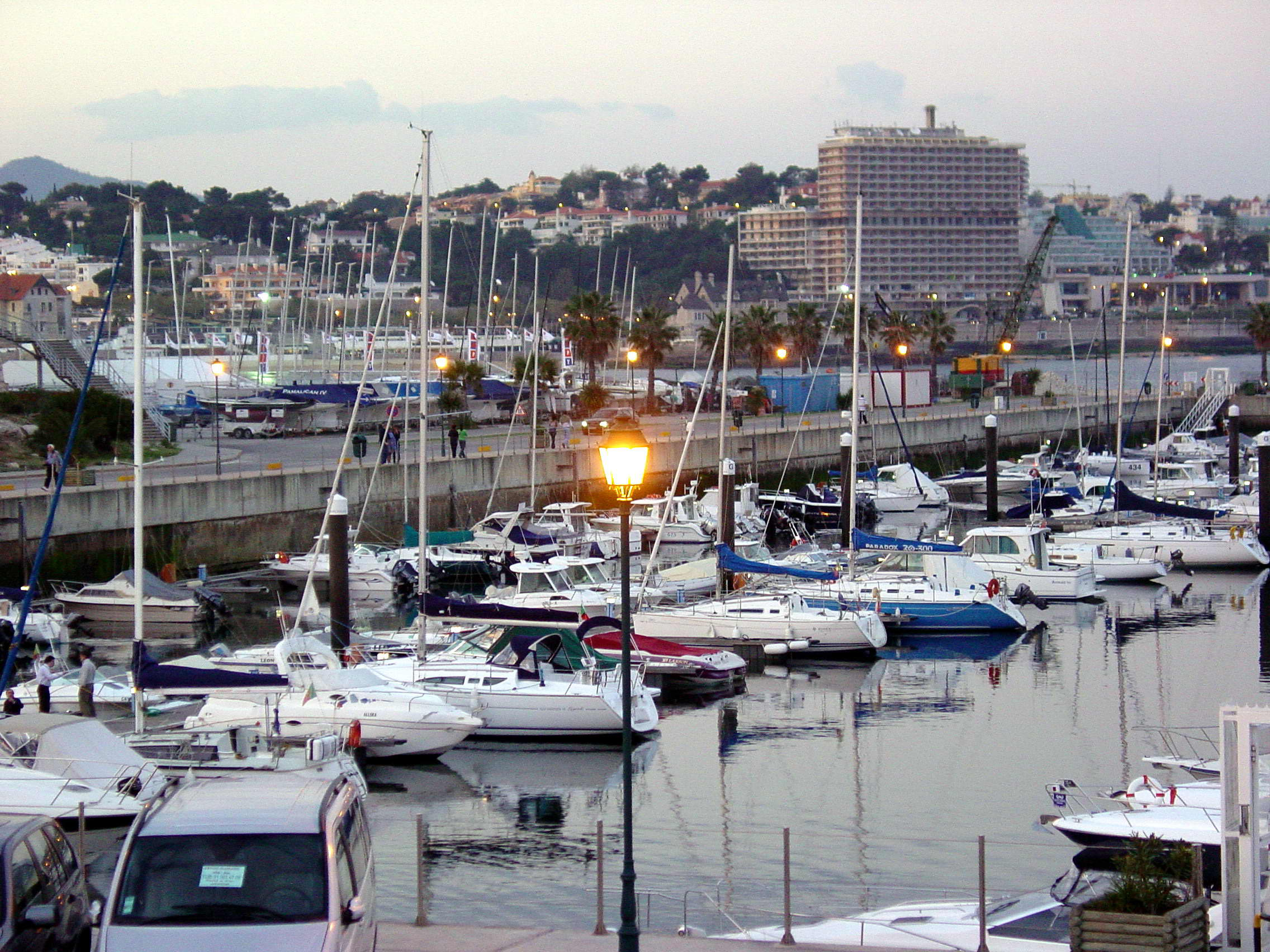 Cascais is a coastal village of Portugal.